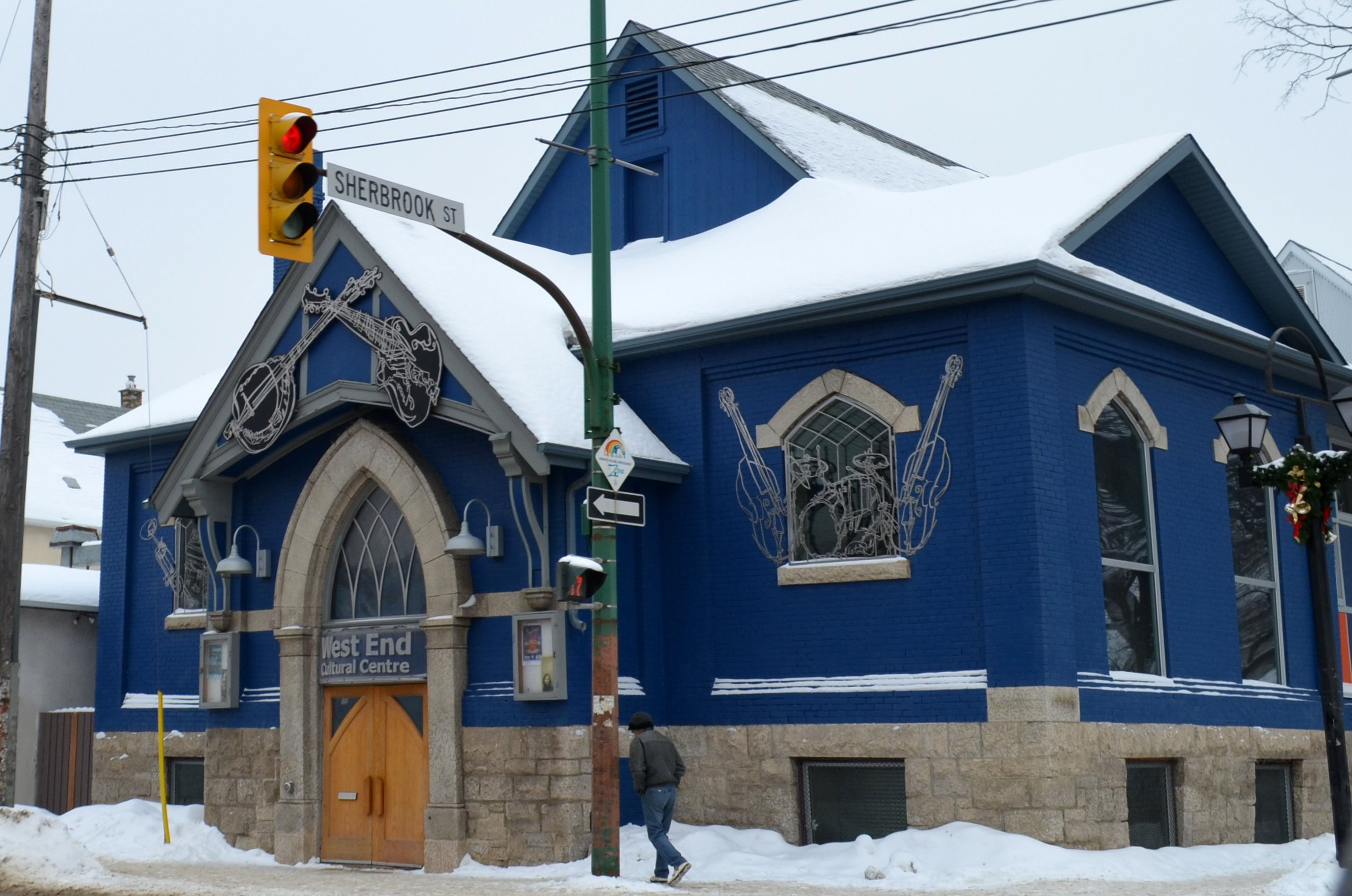 West End Cultural Centre, 586 Ellice Ave, Winnipeg Manitoba Canada